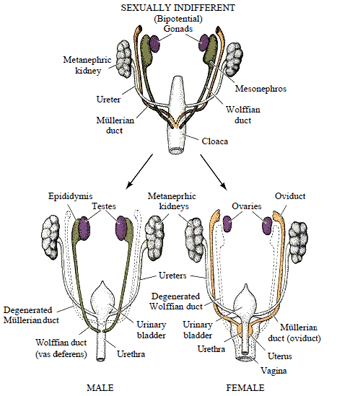 sexual differentiation. The human embryo has indifferent sex accessory ducts until the seventh week of development. Original work, adapted from figure 17.4 of the following source: Gilbert SF. Developmental biology, sixth edition. Sunderland, MA: Sinauer Associates, 2000.